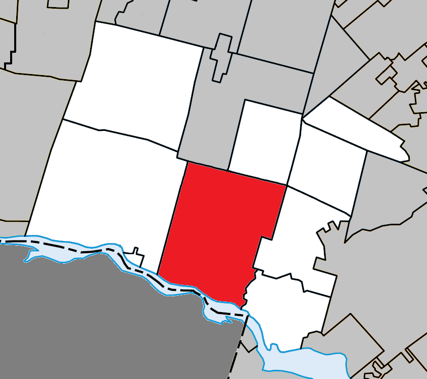 Location of Brownsburg-Chatham, Quebec within Argenteuil Regional County Municipality.